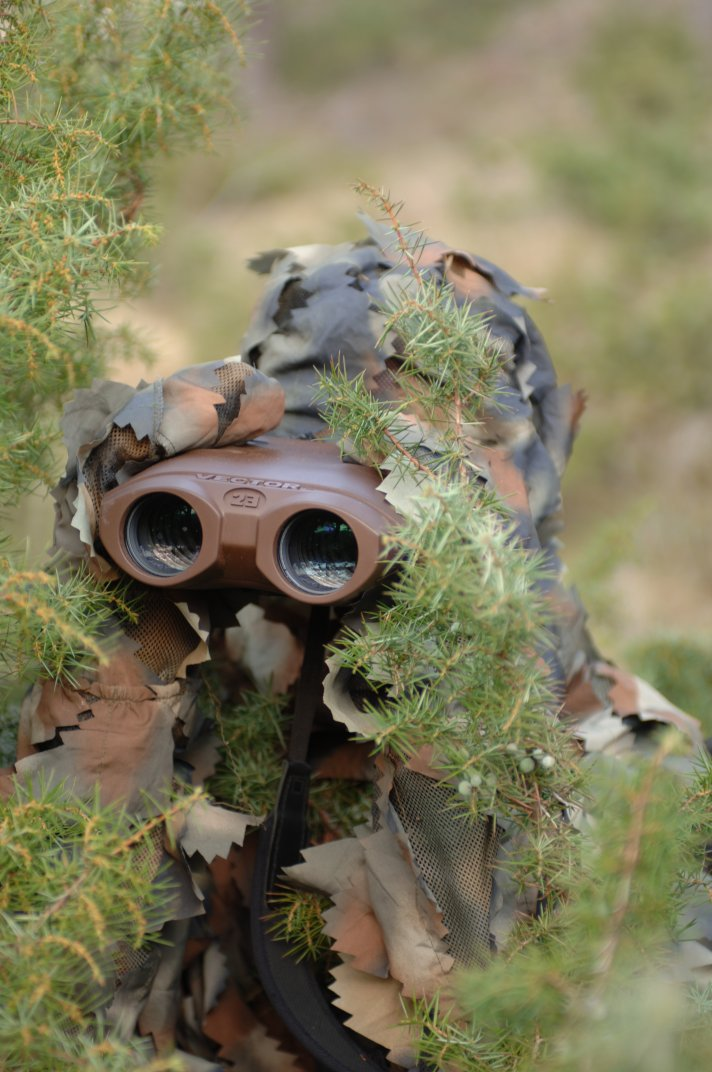 Leica Vector 23 rangefinder binoculars. This laser rangefinder can measure distance up to 25 km (15.5 mi) and angles and also features a 360° digital compass and class 1 eye safe filters.r